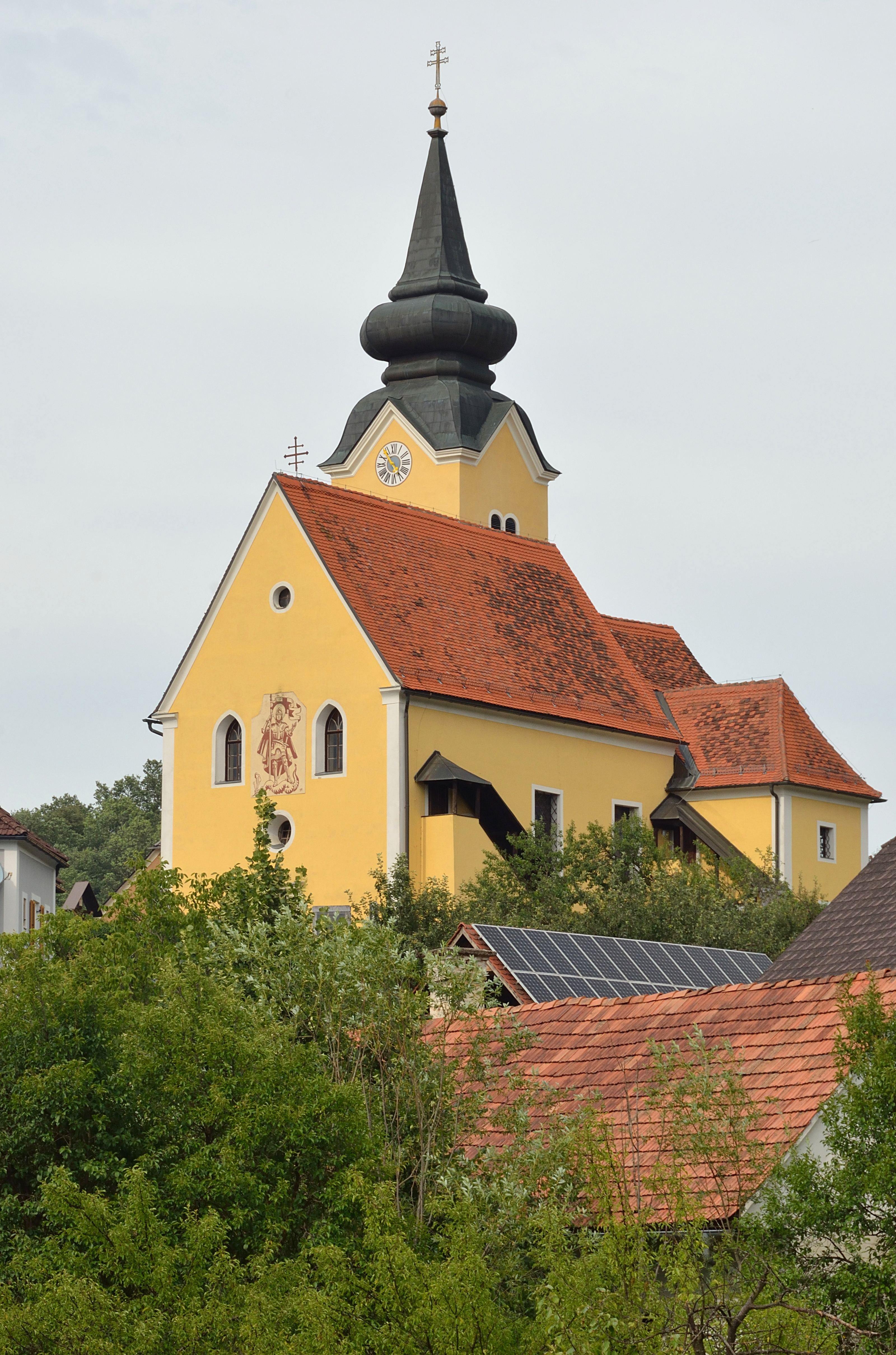 Parish church St. George and cemetery in Großklein, Styria. As seen from SW. At the west face of the church there is a sgraffito of Saint George and the dragon.